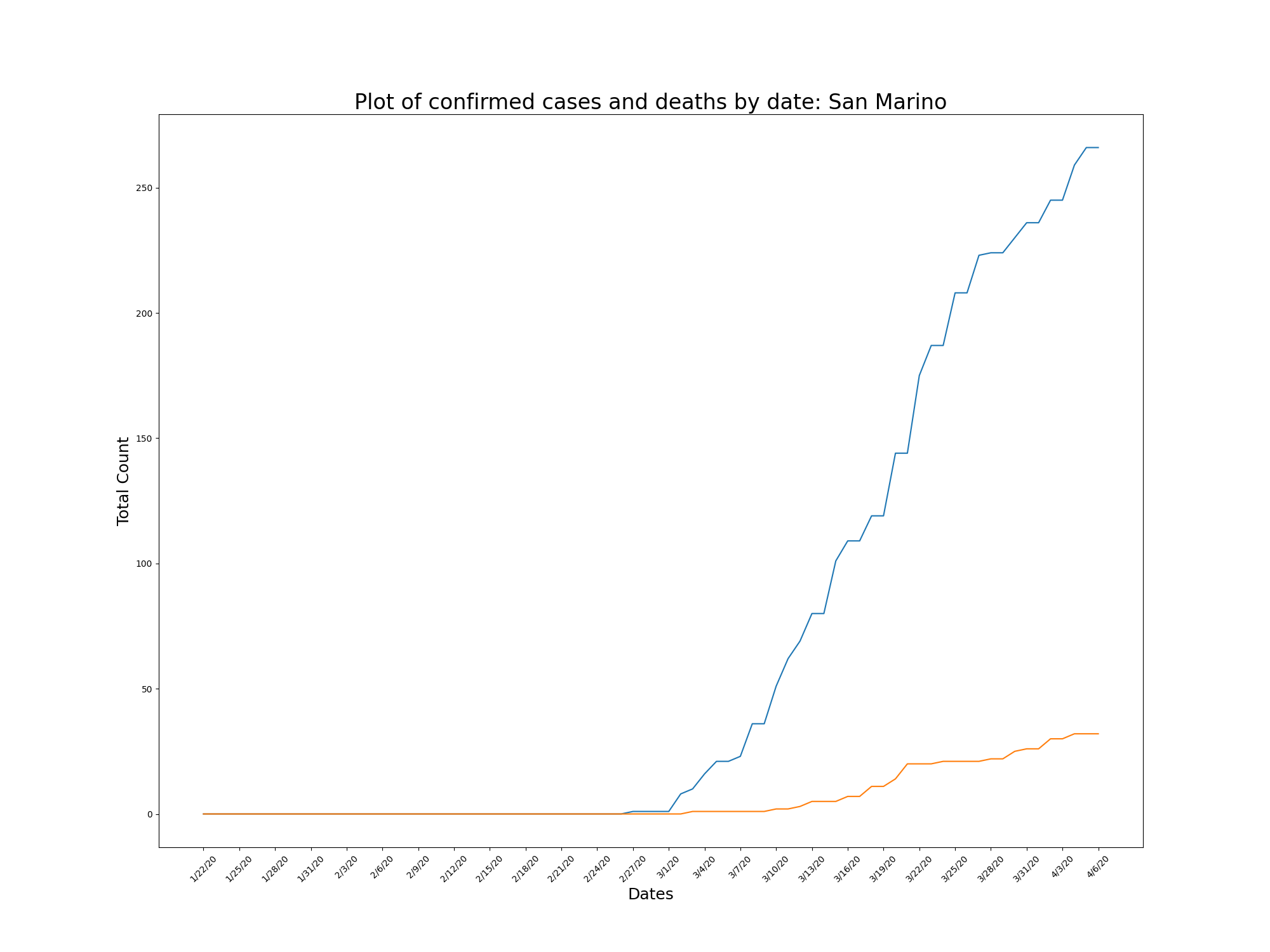 COVID 19 confirmed vs death Cases in San Marino